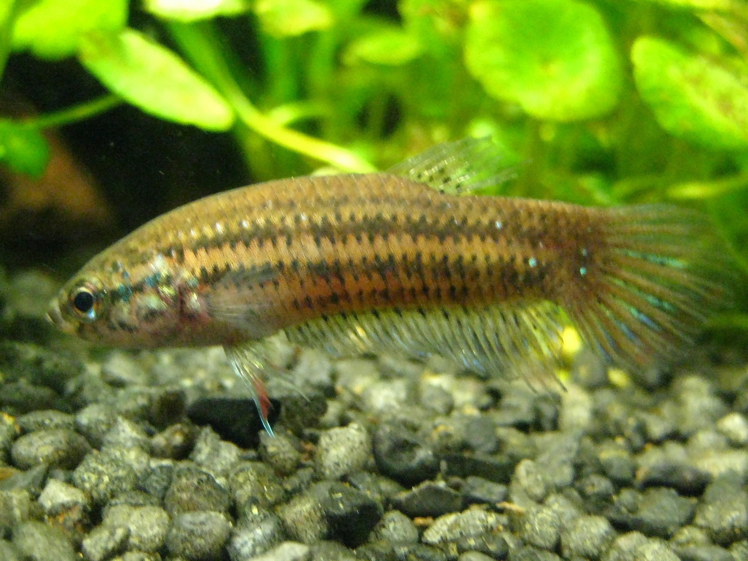 Betta imbellis (female)